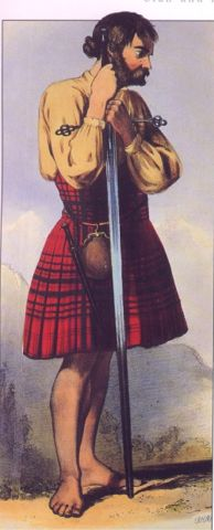 Source: James Logan, R. R. MacIan (ill.) The Clans of The Scottish Highlands. First published 1845, reprinted 1847. Creator: Robert Ronald MacIan (1803-1856)